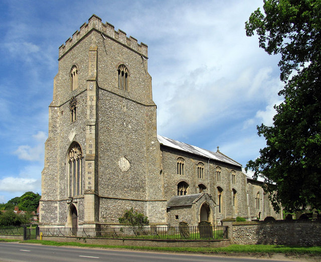 St Mary's parish church, North Creake, Norfolk, seen from the southwest